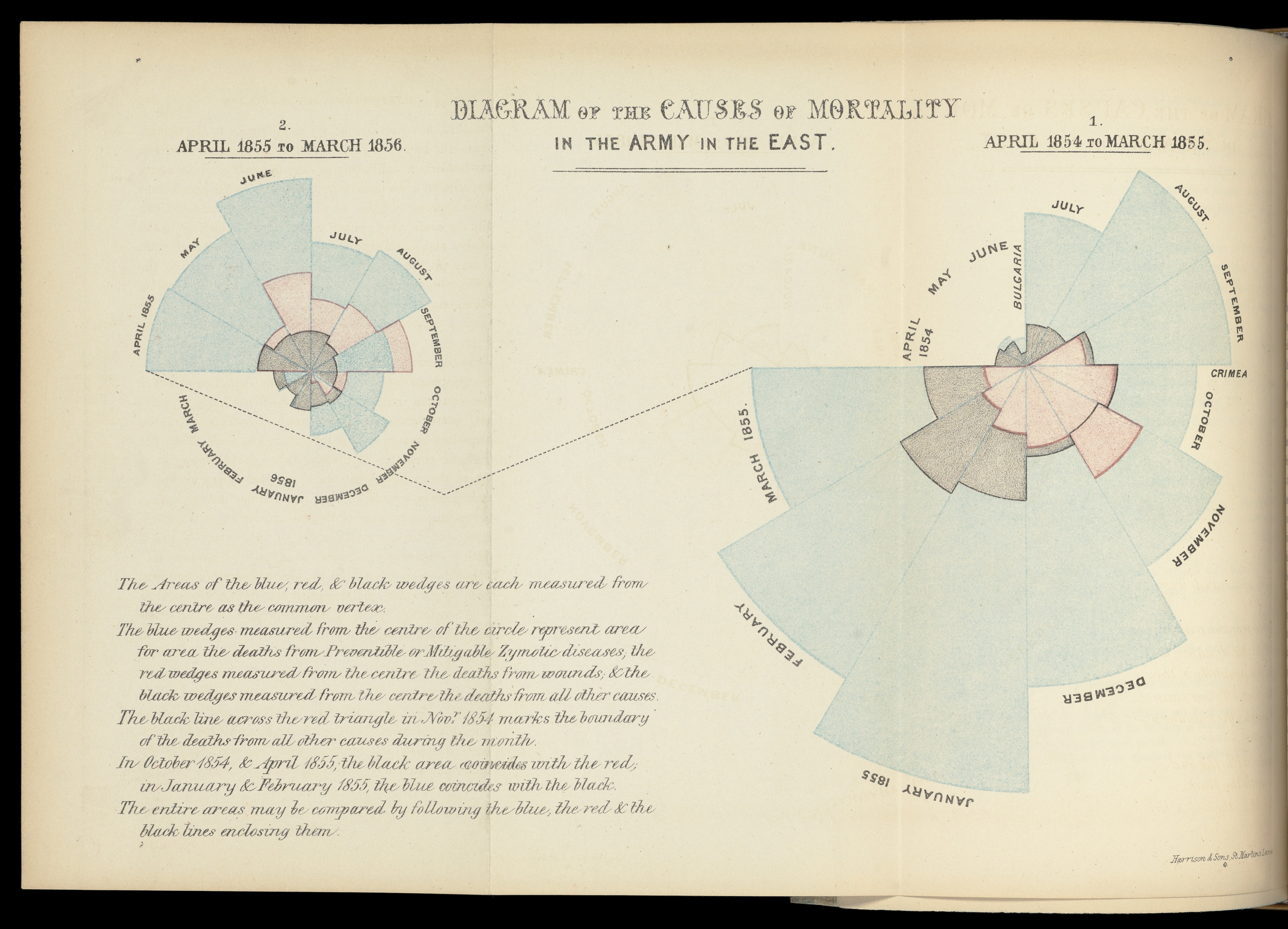 Two colour charts showing the causes of mortality in the army in the East. General Collections Keywords: Military Medicine; Hospitals, Military; Military Nursing